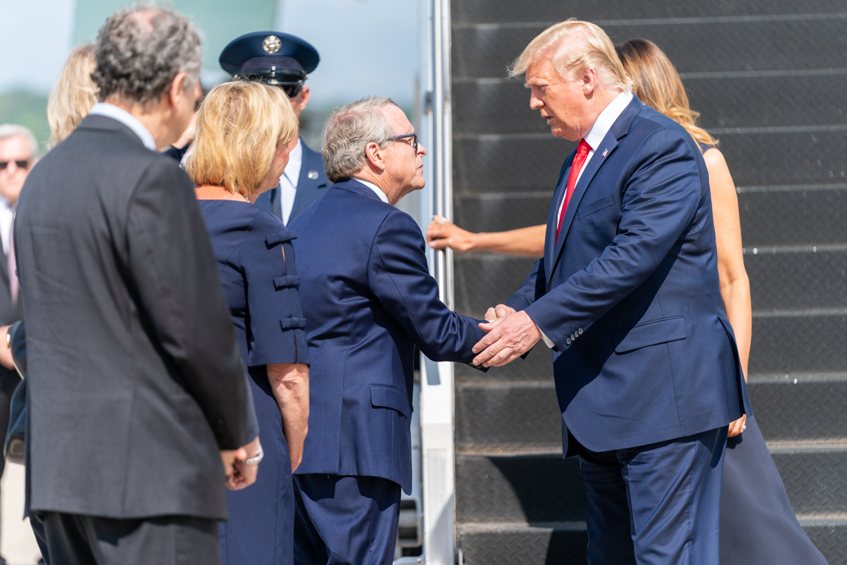 President Donald J. Trump and First Lady Melania Trump are greeted by Ohio Governor Mike DeWine Wednesday, Aug. 7, 2019, at Wright-Patterson Air Force Base in Dayton, Ohio, and other state and local officials. (Official White House Photo by Shealah Craighead)